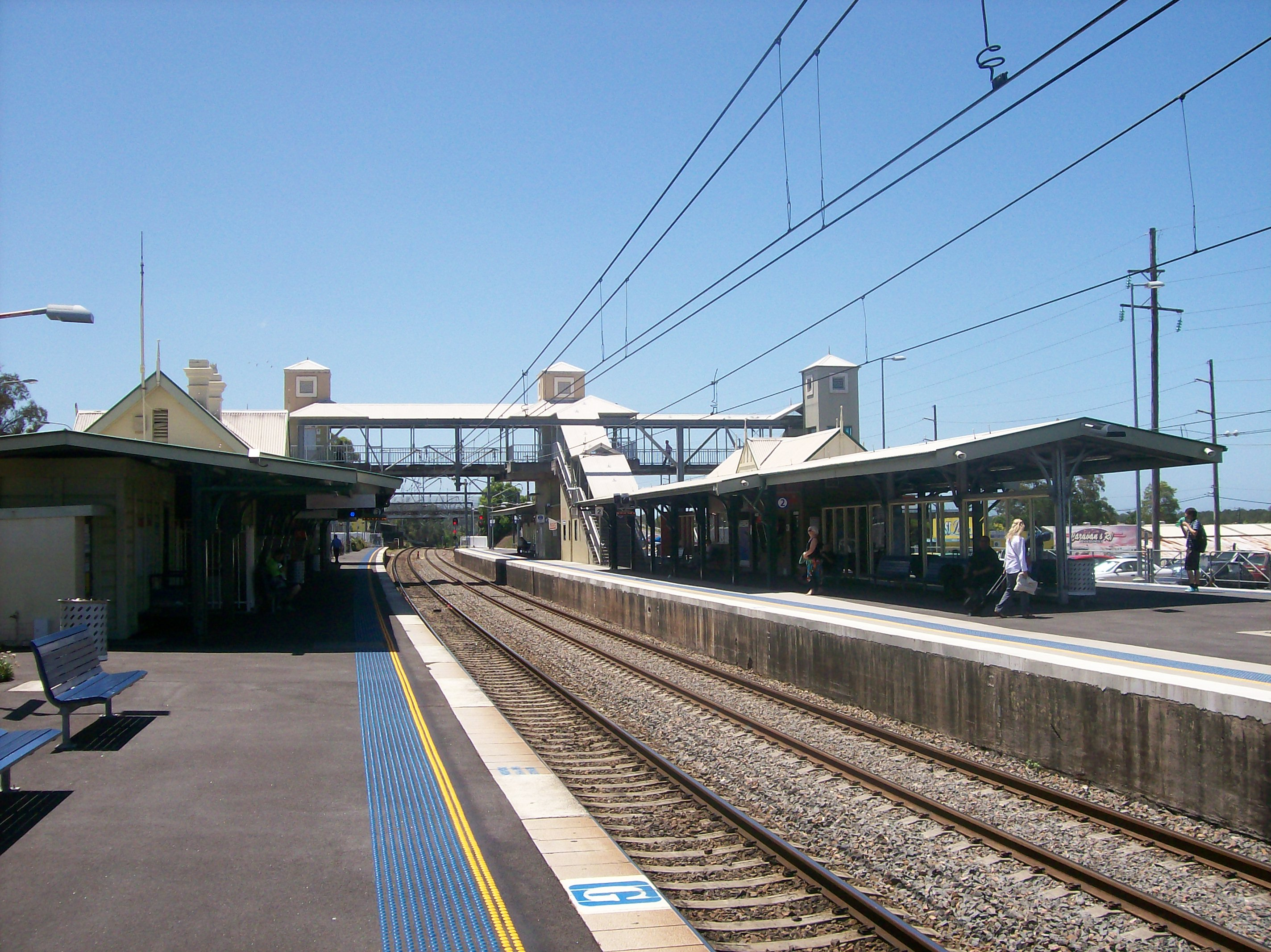 Wyong railway station